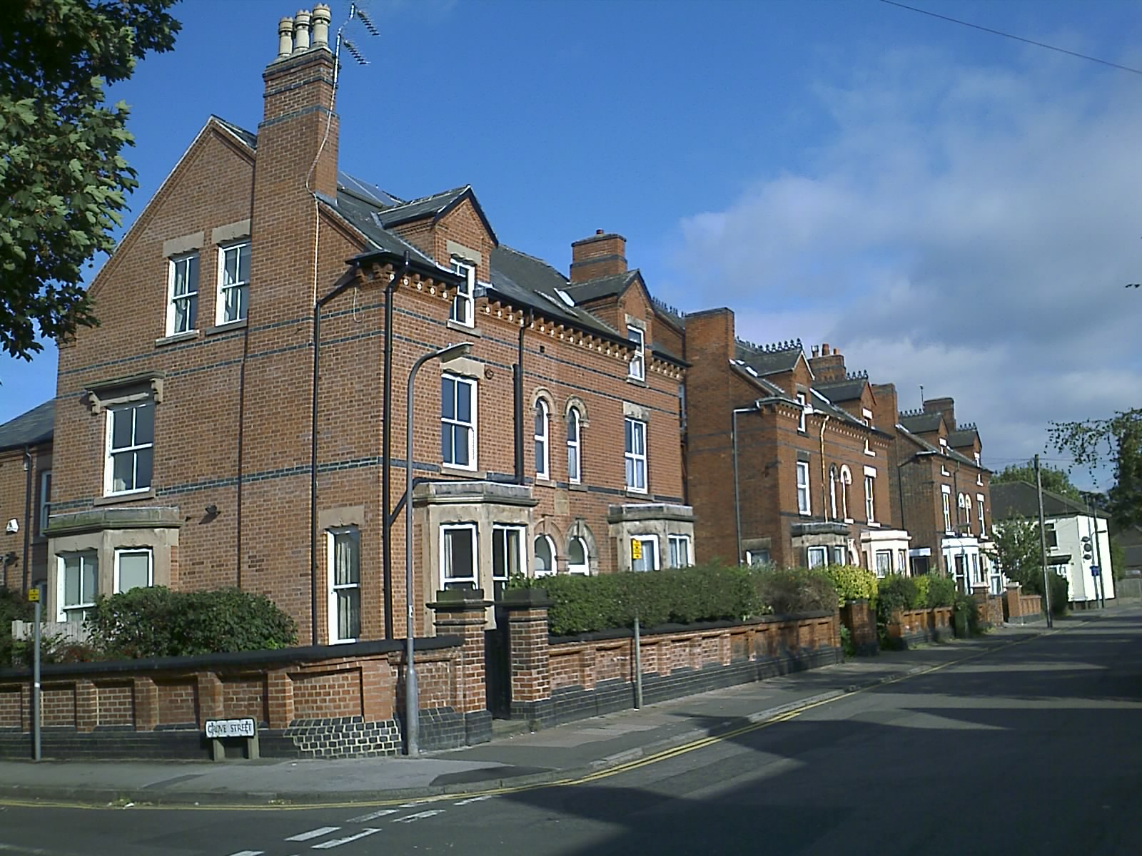 Victorian villas on Dovecote Lane, Beeston, Nottinghamshire.